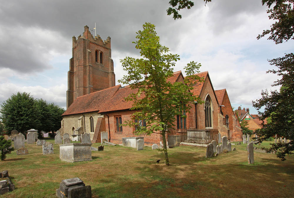 SS Edmund and Mary parish church, Ingatestone, Essex, seen from the southeast